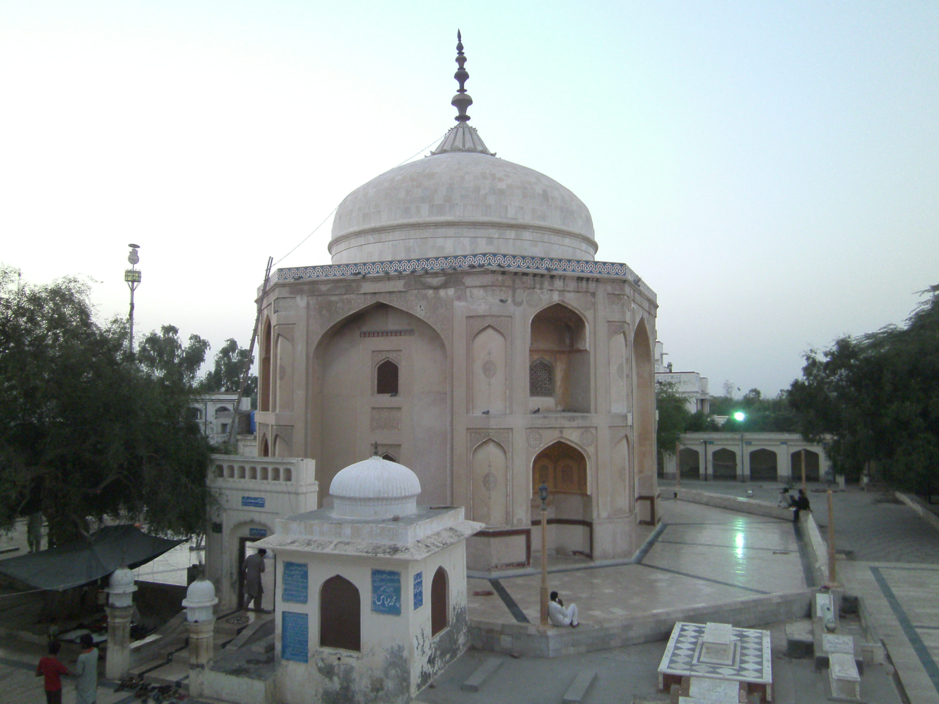 Tomb of Syyed Daud Kirmani This is a photo of a monument in Pakistan identified as the PB-140